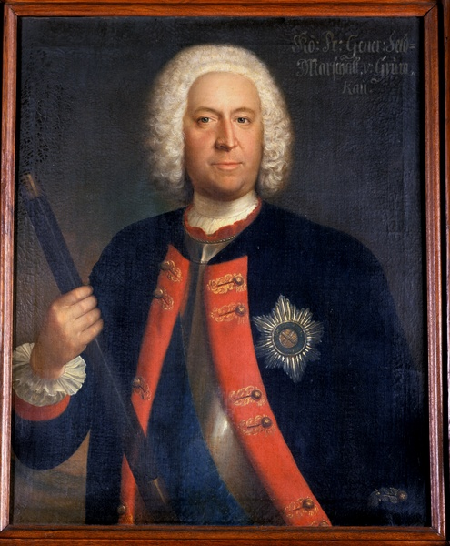 Friedrich Wilhelm von Grumbkow, Prussian Generalfeldmarschall and statesman